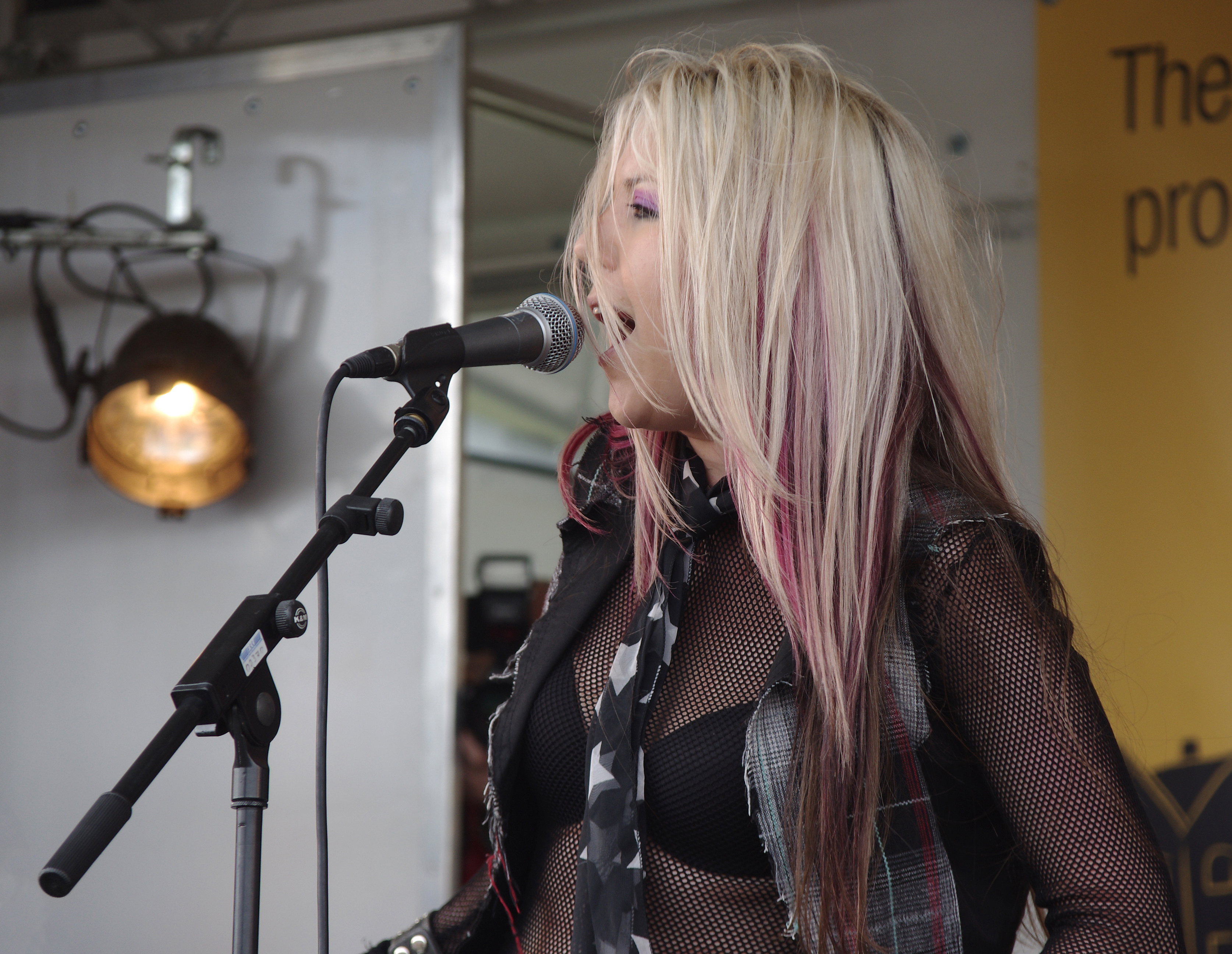 Mel Sanson of Kenelis performs on the main stage at Nottingham Pride 2010.